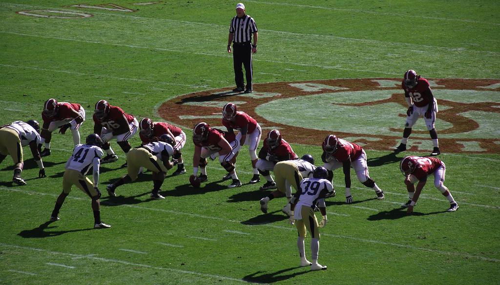 The Alabama Crimson Tide football on offense line up against the Western Carolina Catamounts defense at Bryant–Denny Stadium. Alabama quarterback A. J. McCarron is under center with running back Eddie Lacy in the backfield.